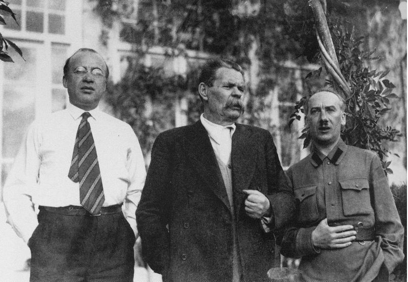 Pjotr Kryuchkov, Maxim Gorky and Genrikh Yagoda